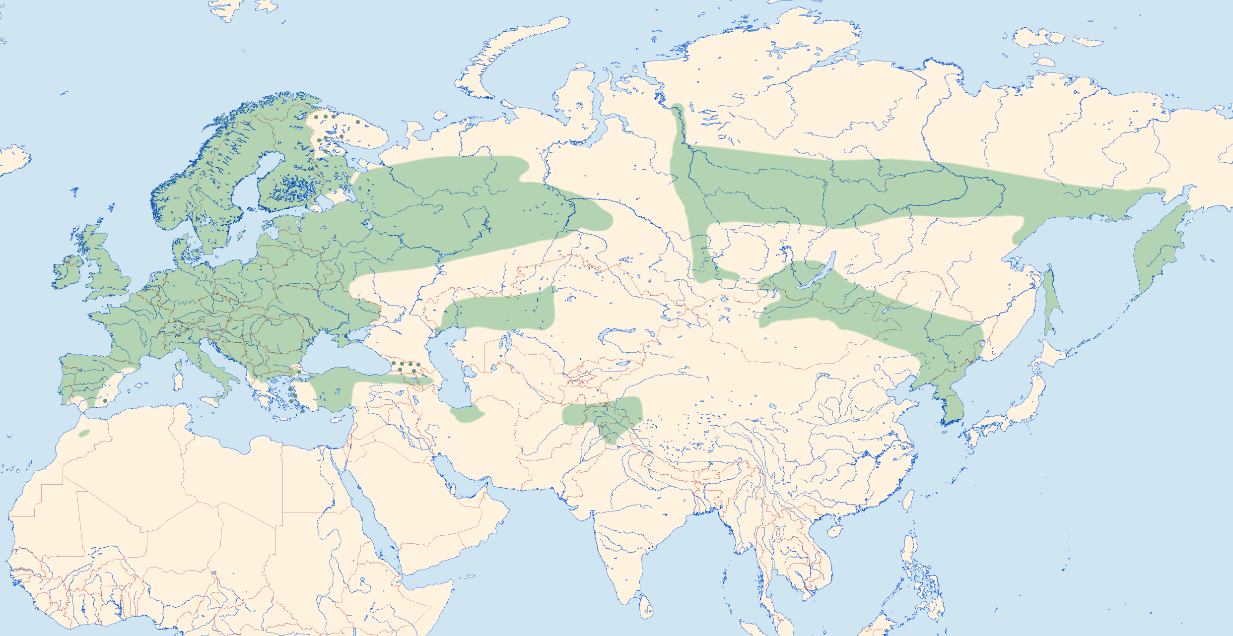 Distribution of the Common Blue Damselfly (Enallagma cyathigerum) Data Sources (In case of discrepancies in the map source the youngest in each data source was used): Klaas-Douwe B. Dijkstra: Field Guide to the Dragonflies of Britain and Europe. British Wildlife Publishing, Gillingham 2006, ISBN 0-953139948. Philip S. Corbet, Cynthia Longfield, N. W. Moore: Dragonflies, The New Naturalist, Collins, London 1960, ISBN 0-00-219064-8.